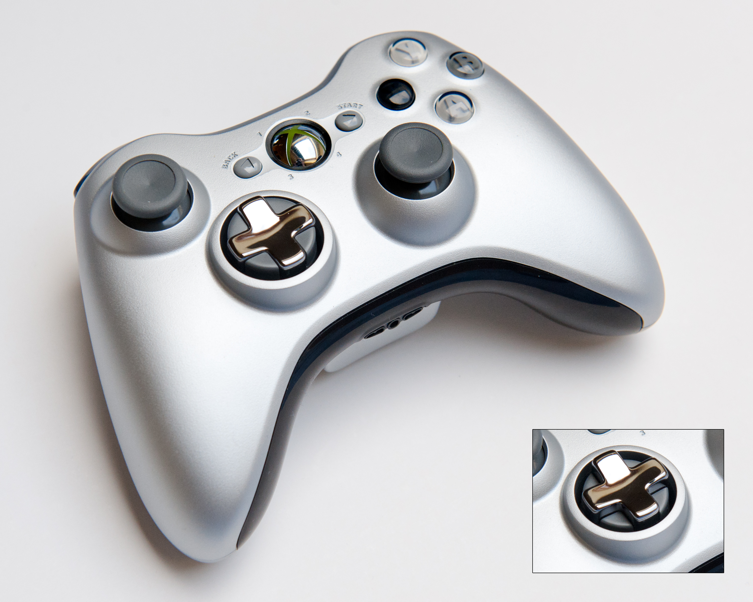 Special edition controller with "transforming d-pad" for the Xbox 360 games console